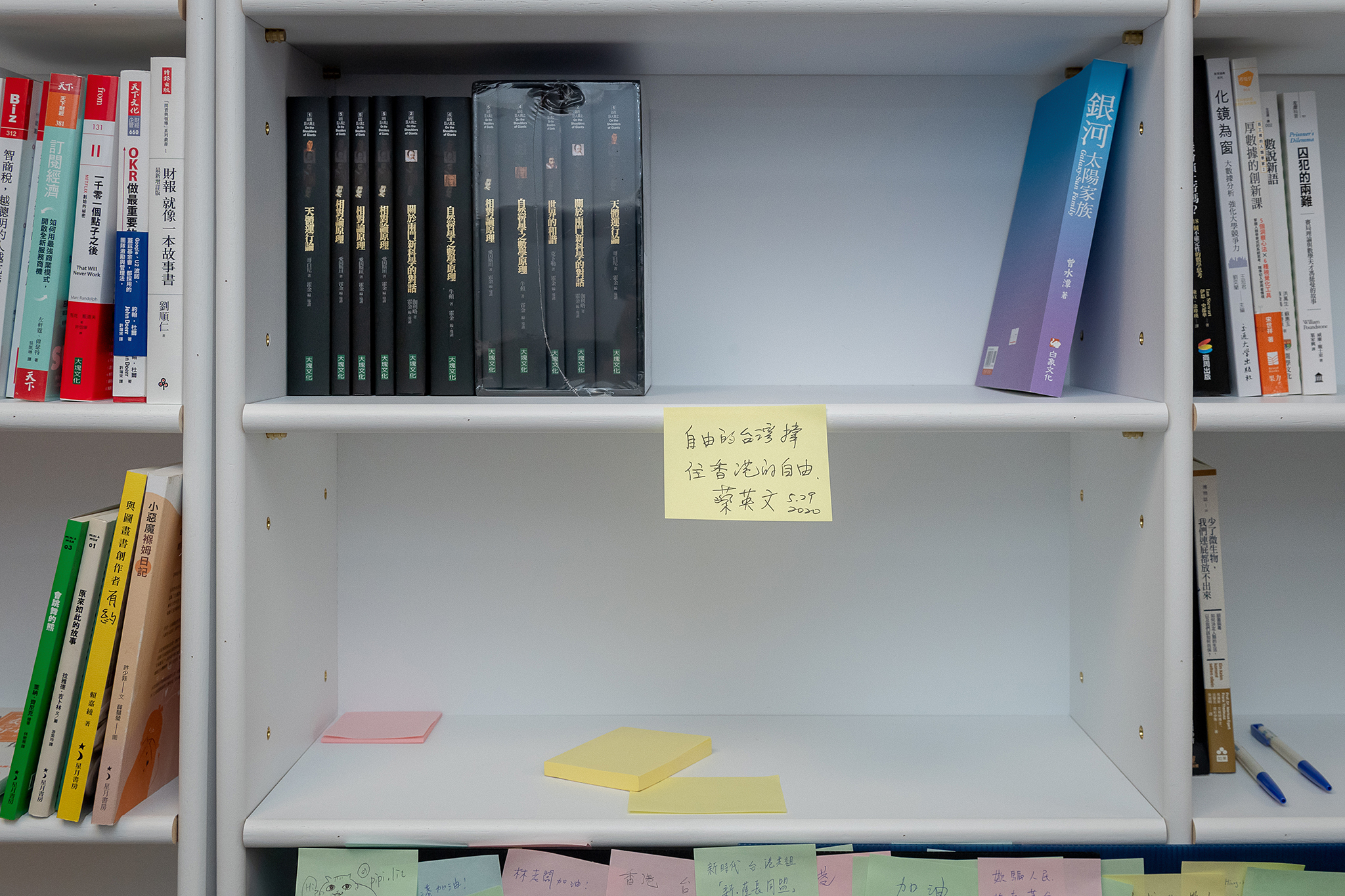 Official Photo by Makoto Lin / Office of the President